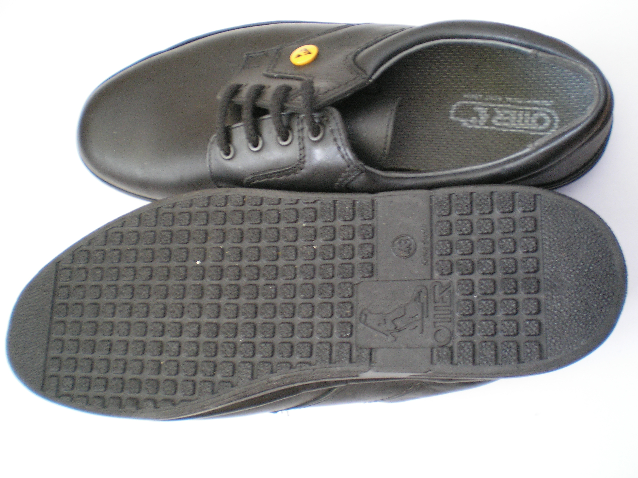 ESD (antistatic) make shoes Otter